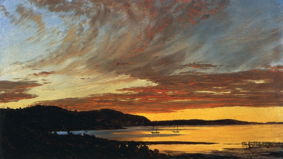 Olana State Historic Site, New York